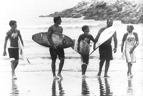 Young people come out of a dip in the waters of Santos, where the sport began in Brazil, despite its calm waters.